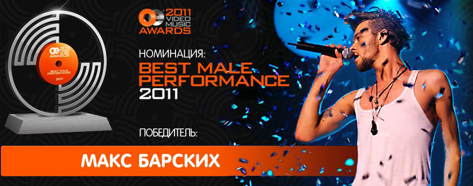 OEVMA2011-03